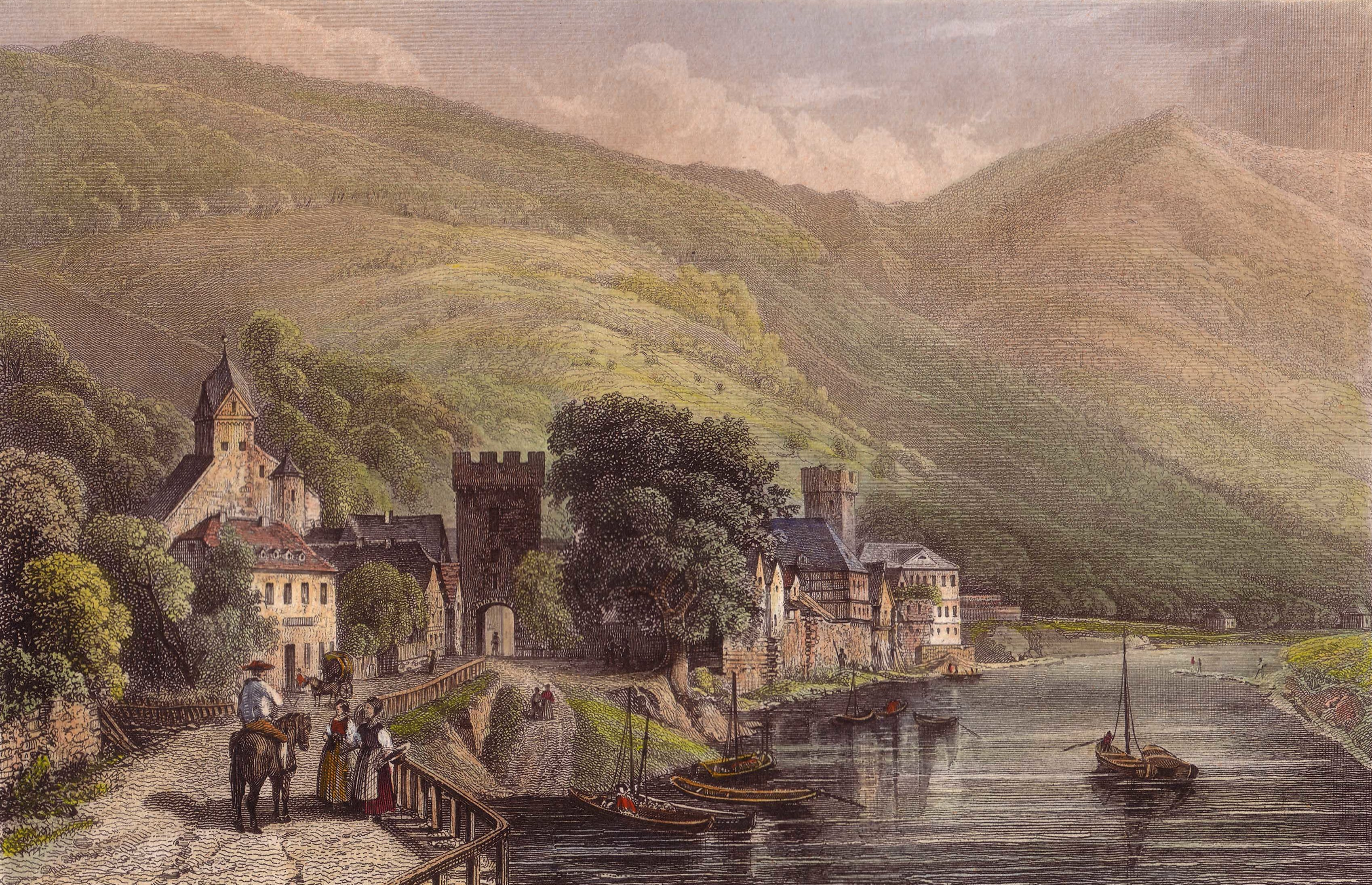 Colored copper engraving: "View from Dausenau"(Germany), around 1844.